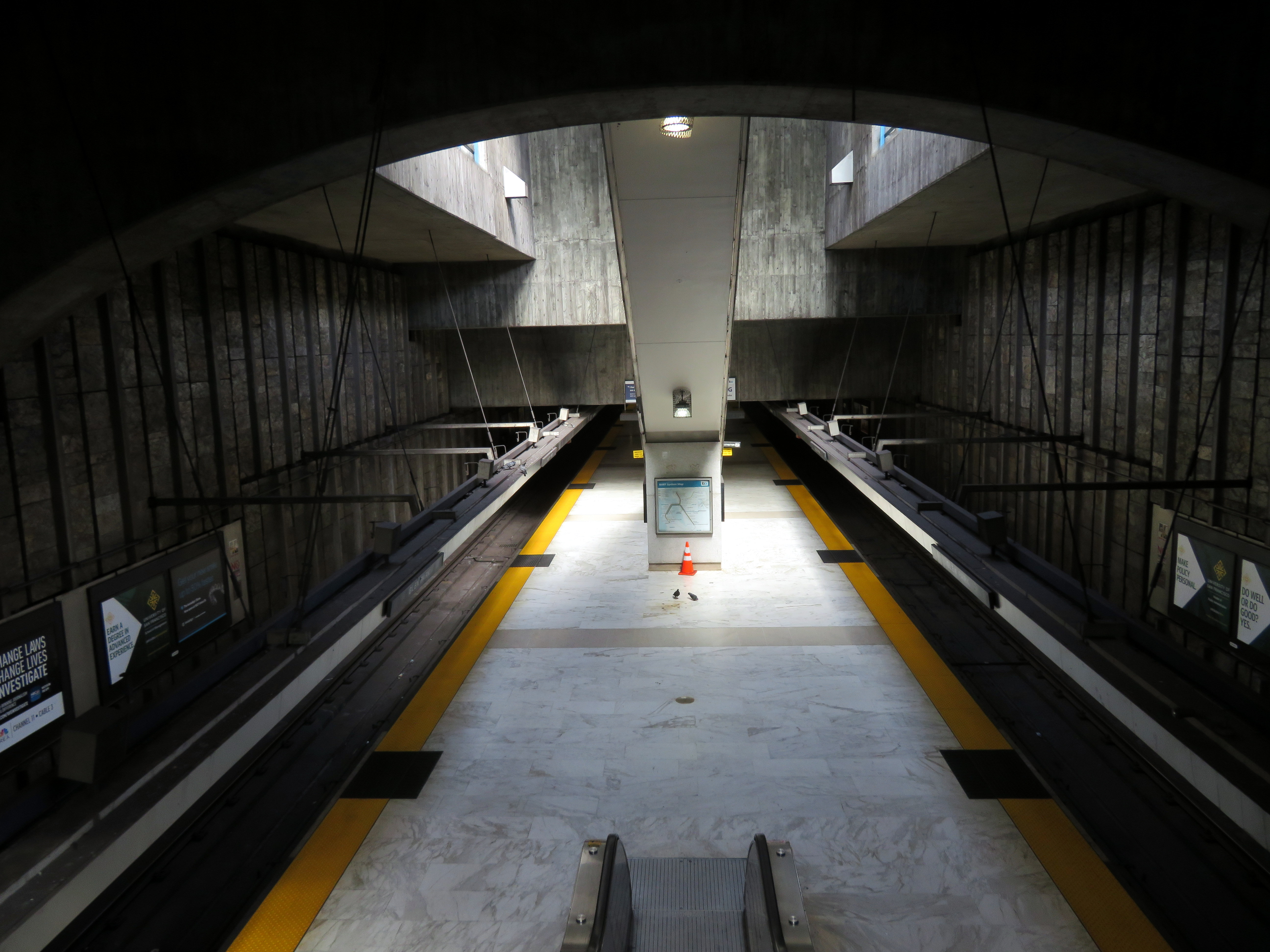 Natural light reaches the platform at Glen Park station in March 2018